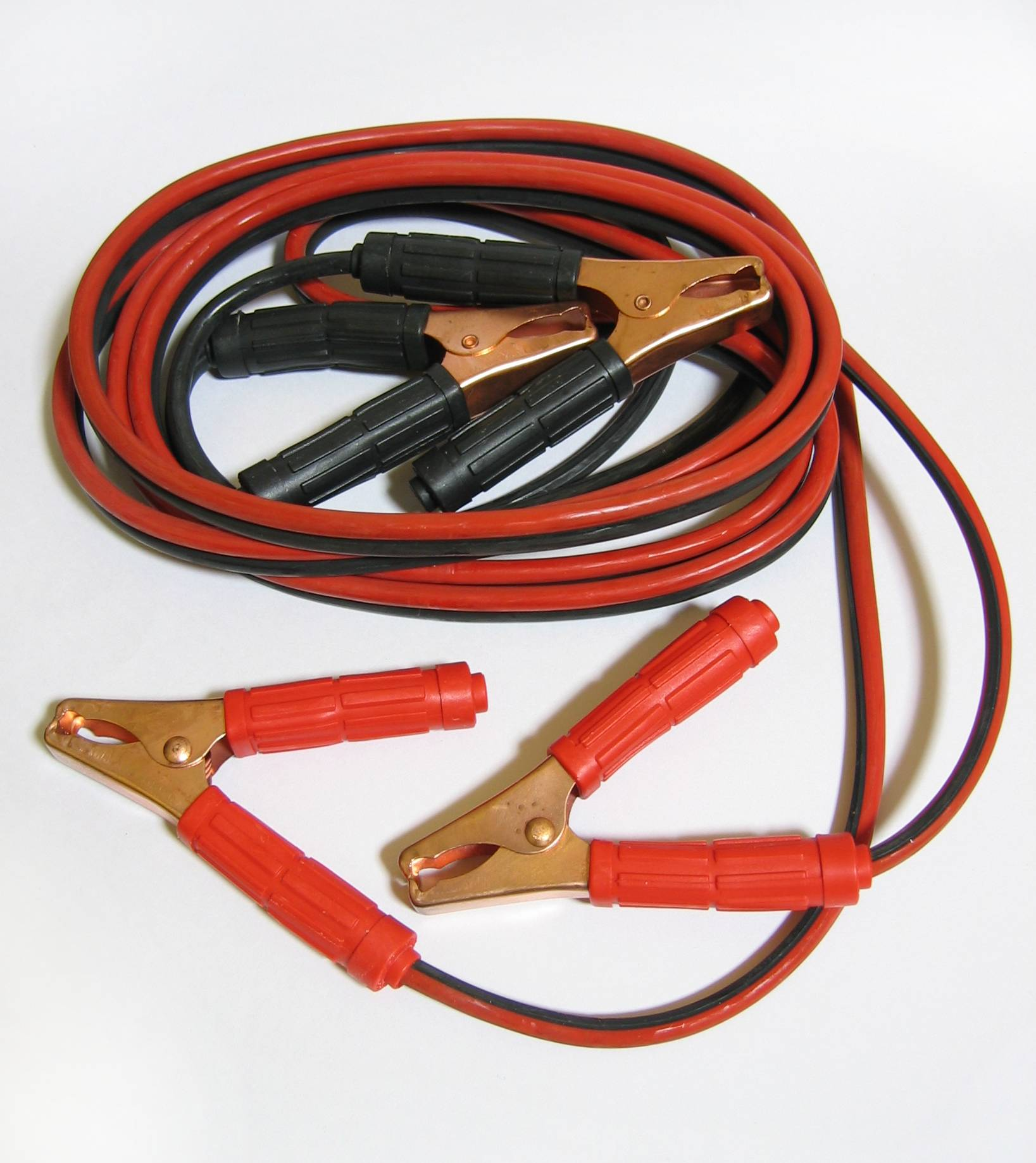 Booster cables (12V, 50A, 3mm², 3.5m)